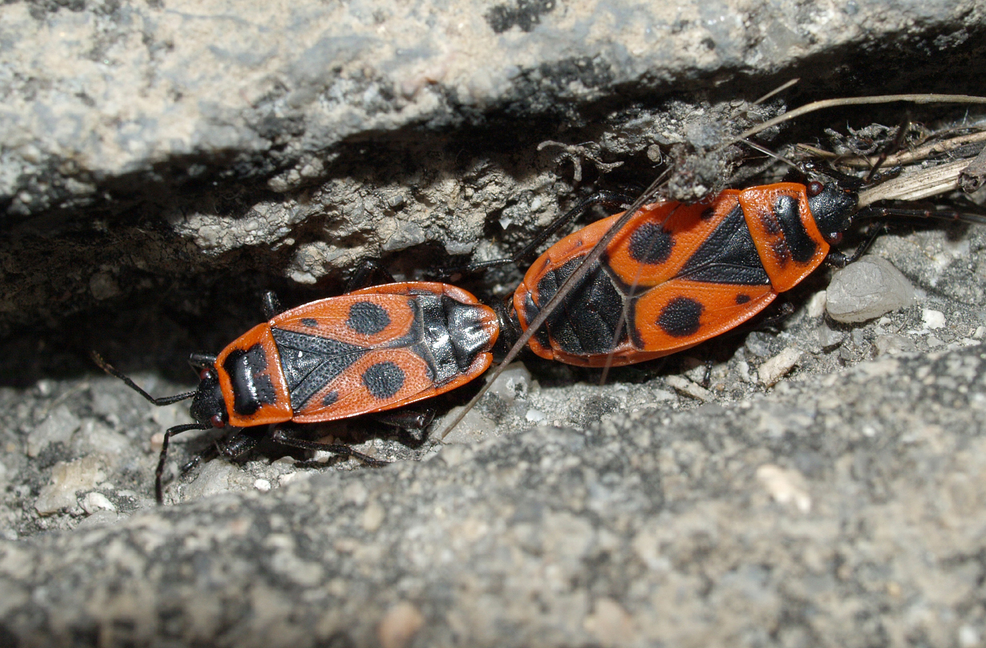 Pyrrhocoris apterus, (Hemiptera, Pyrrhocoridae). Madrid.